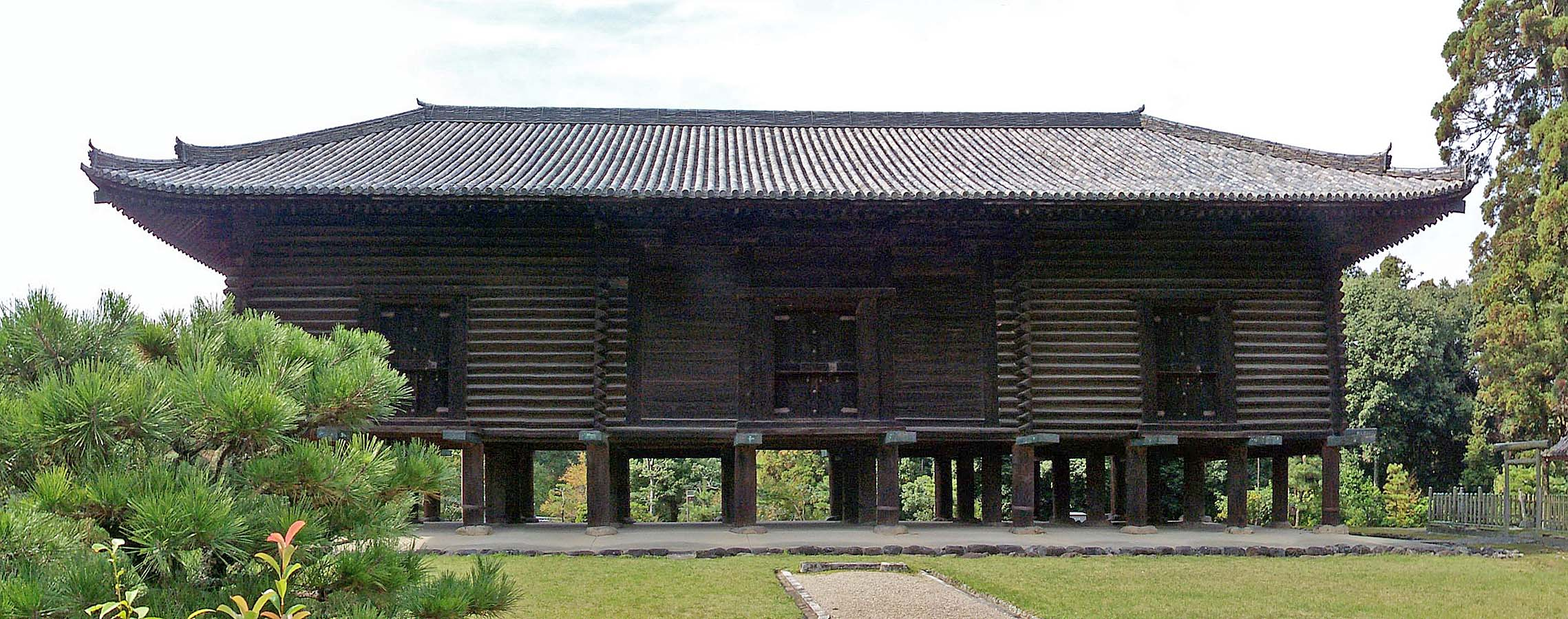 Japan: the Shōsō-in, imperial treasure house of the Tōdai-ji, in Nara city (Nara prefecture).